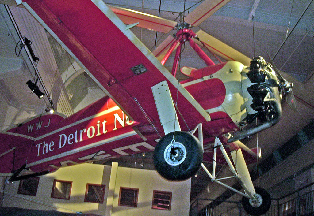 Pitcairn PCA-2 Autogyro NC799W of the Detroit News preserved at the Henry Ford Museum in Dearborn Michigan.